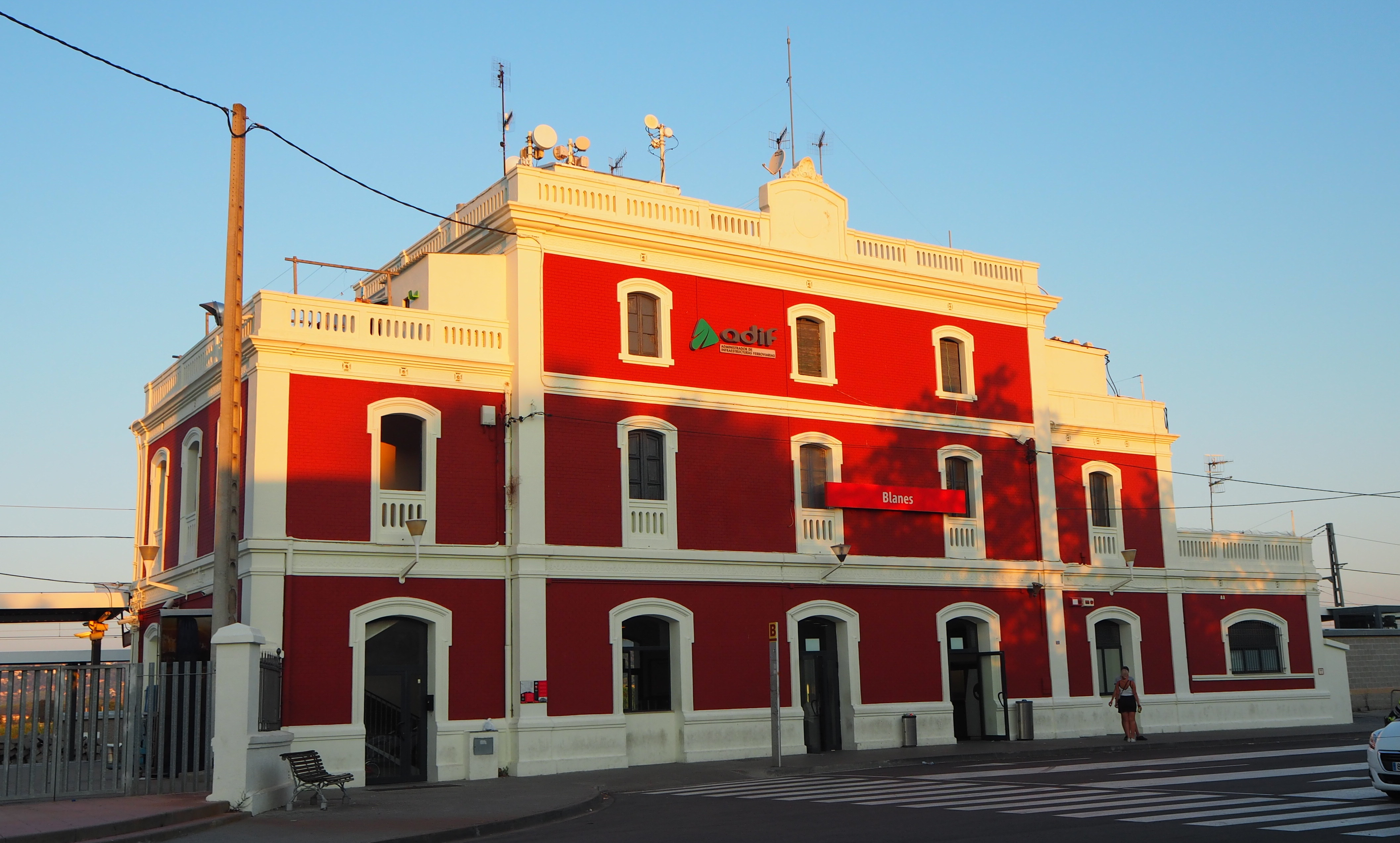 Blanes train station